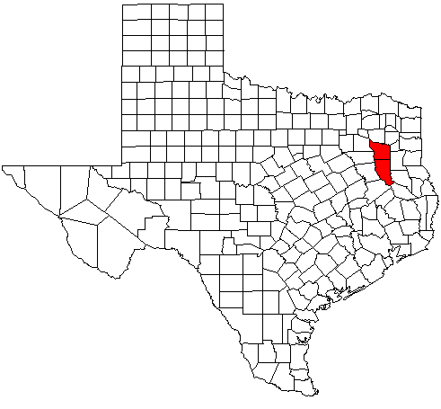 Map of Texas highlighting the Tyler-Jacksonville Combined Statistical Area; created with the GIMP. Made by User:Acntx.